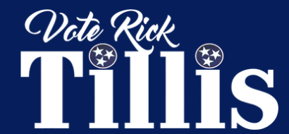 Tennessee Representative Rick Tillis' campaign logo